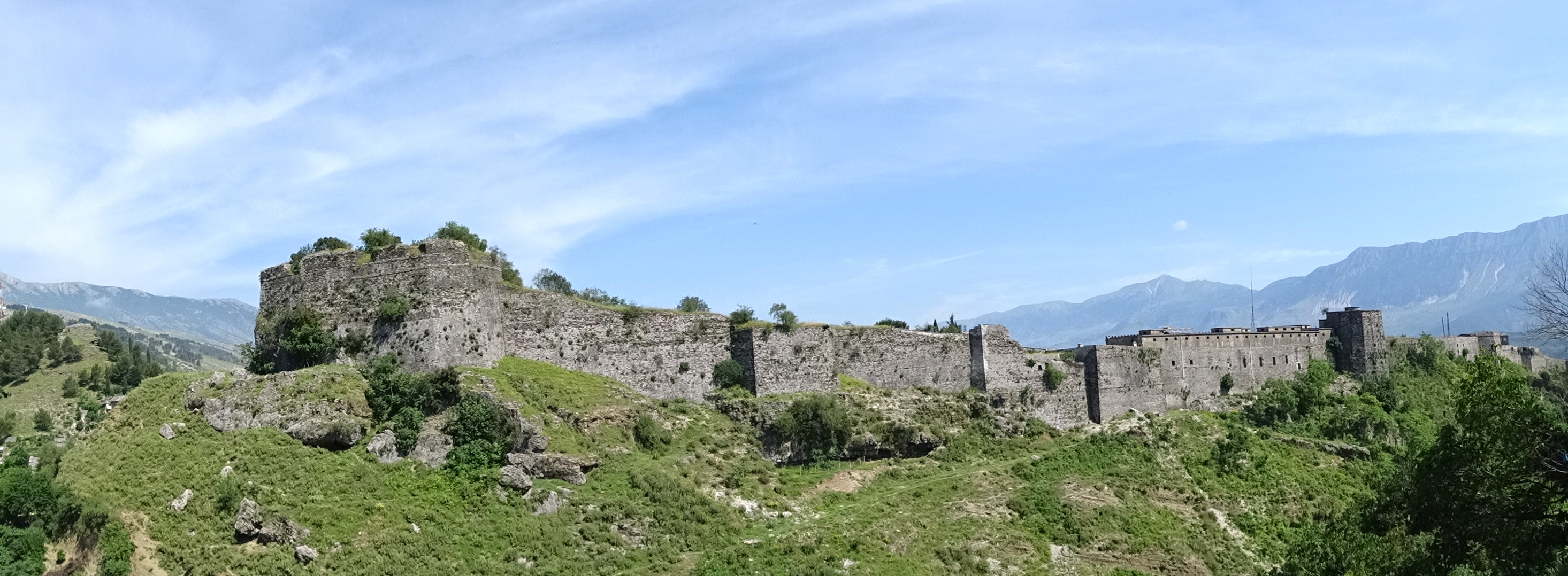 Photos by Adam Jones